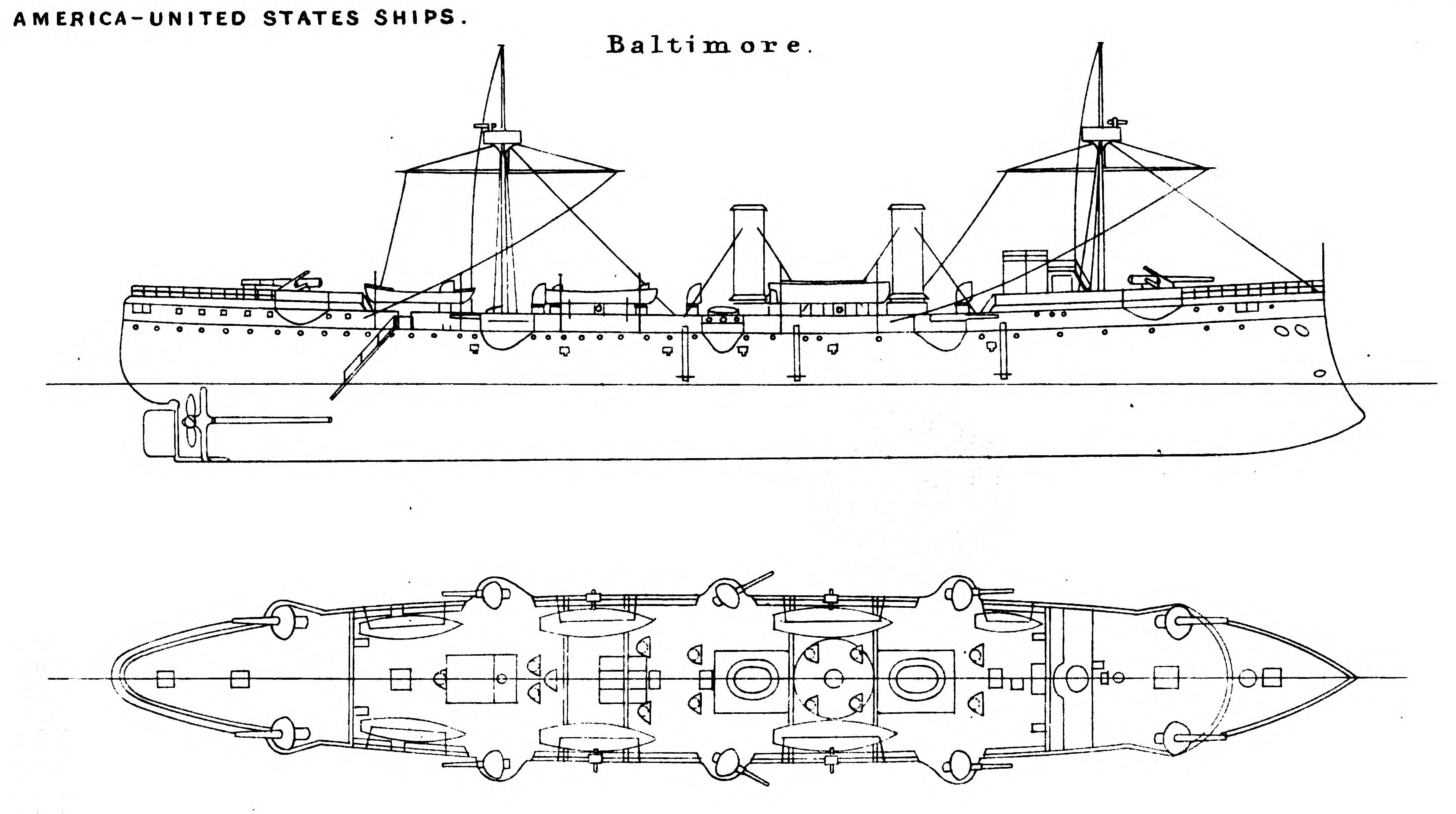 The Naval Annual of 1887 contained this drawing of the United States cruiser Baltimore, on Plate 139.